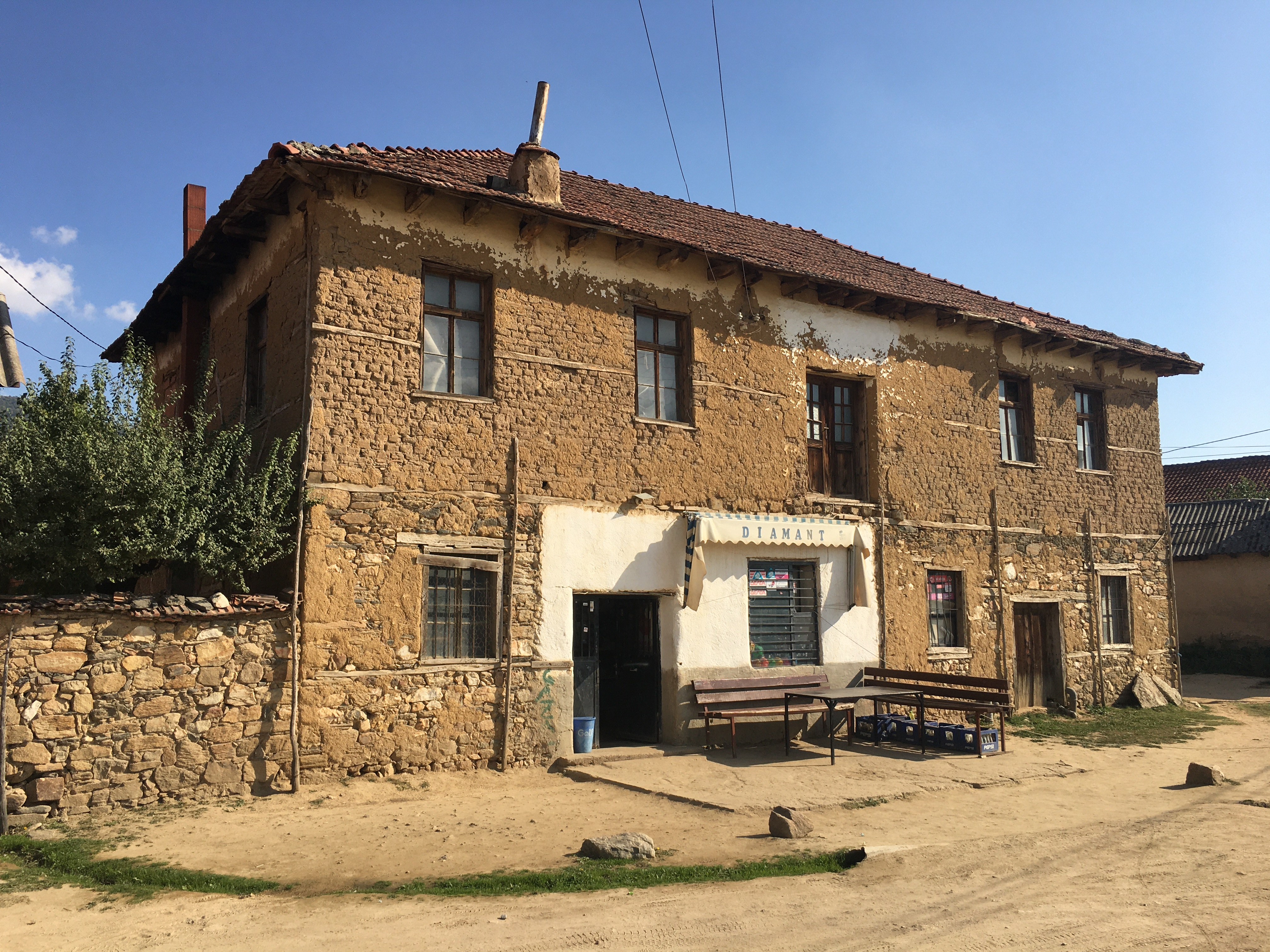 A traditional house in the village of Crnilište